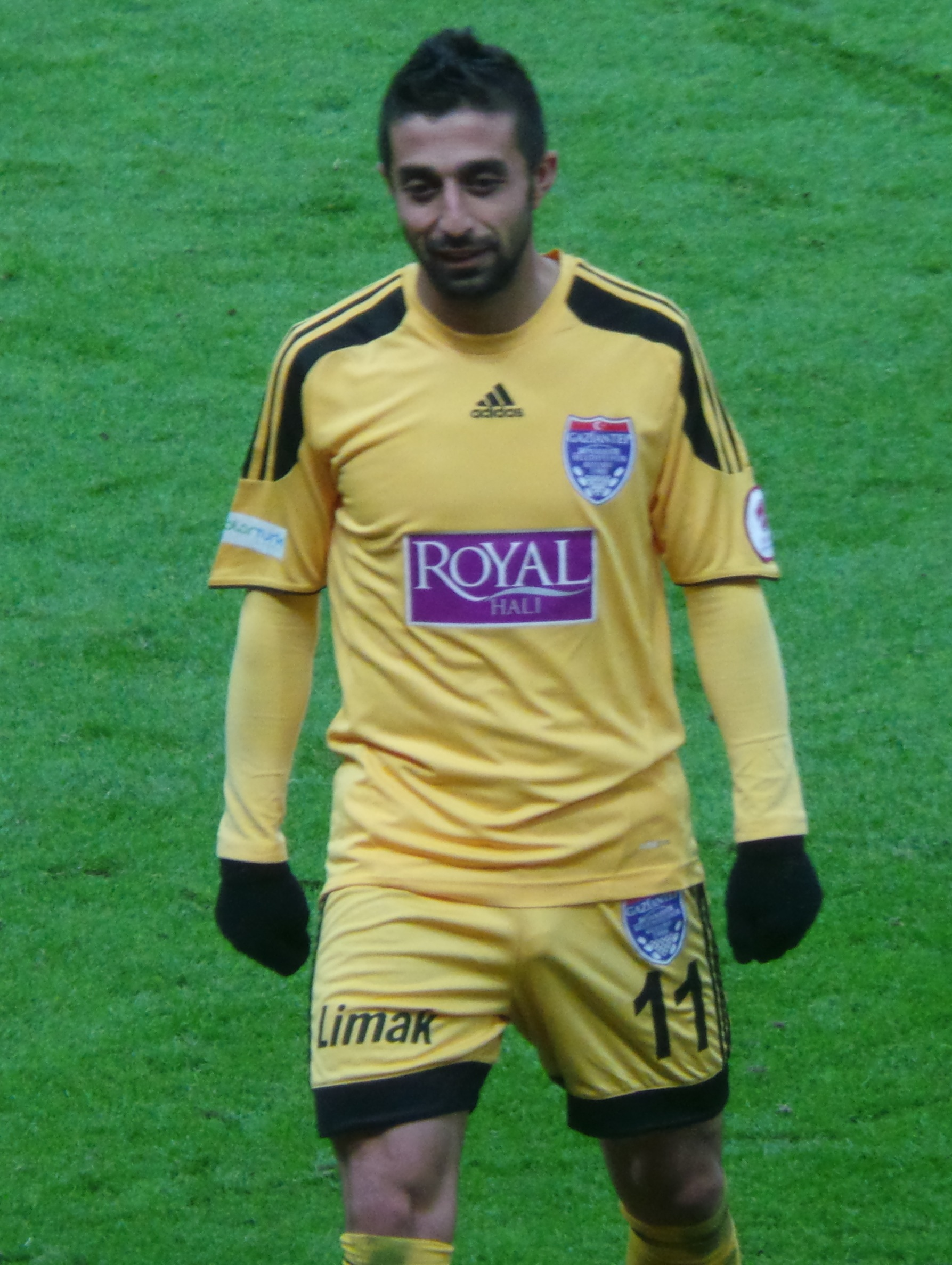 Ramazan Altıntepe